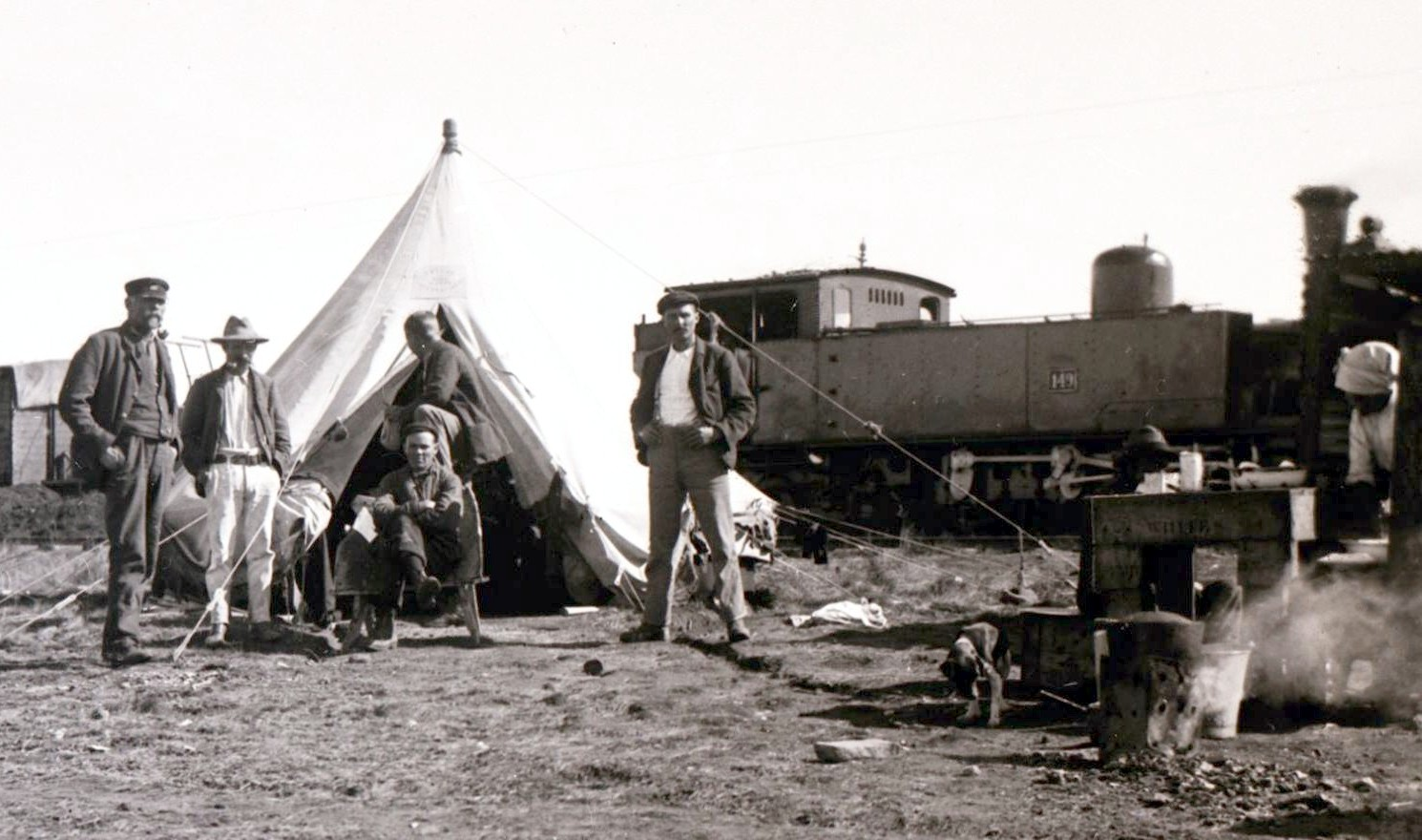 NZASM 46 Tonner 0-6-4T, apparently on construction working